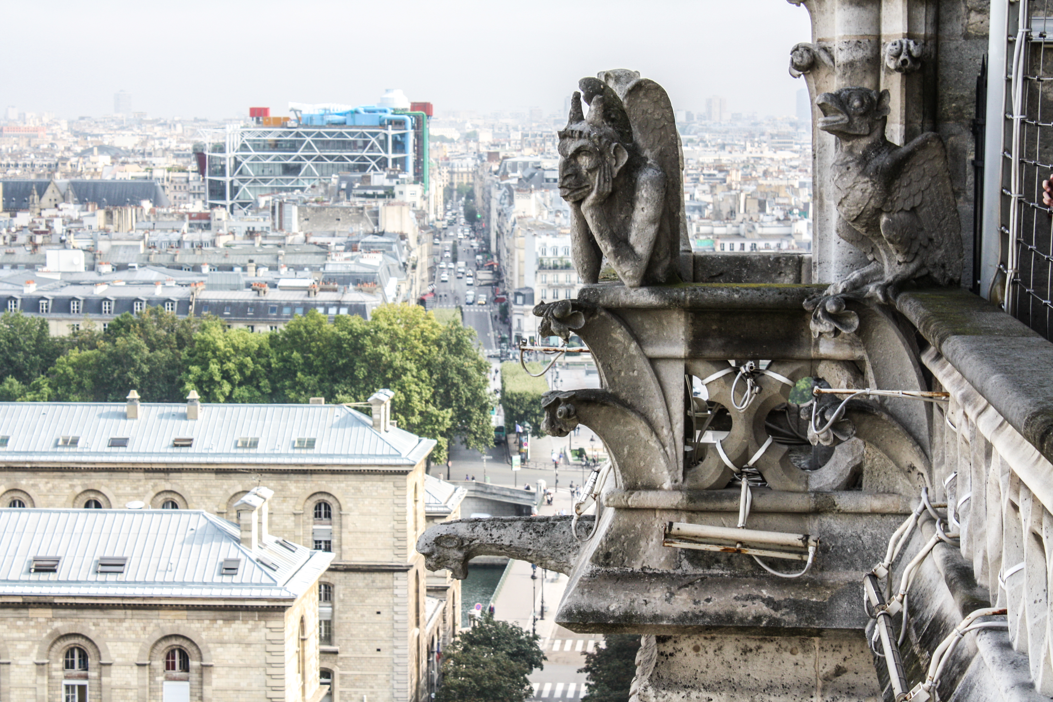 Paris as seen from Notre Dame.